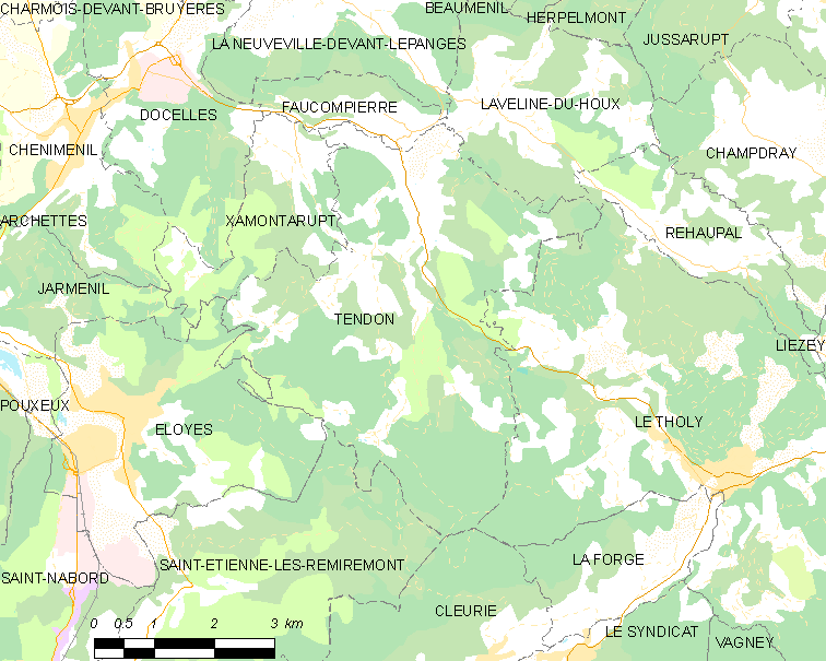 Map of French municipality Tendon